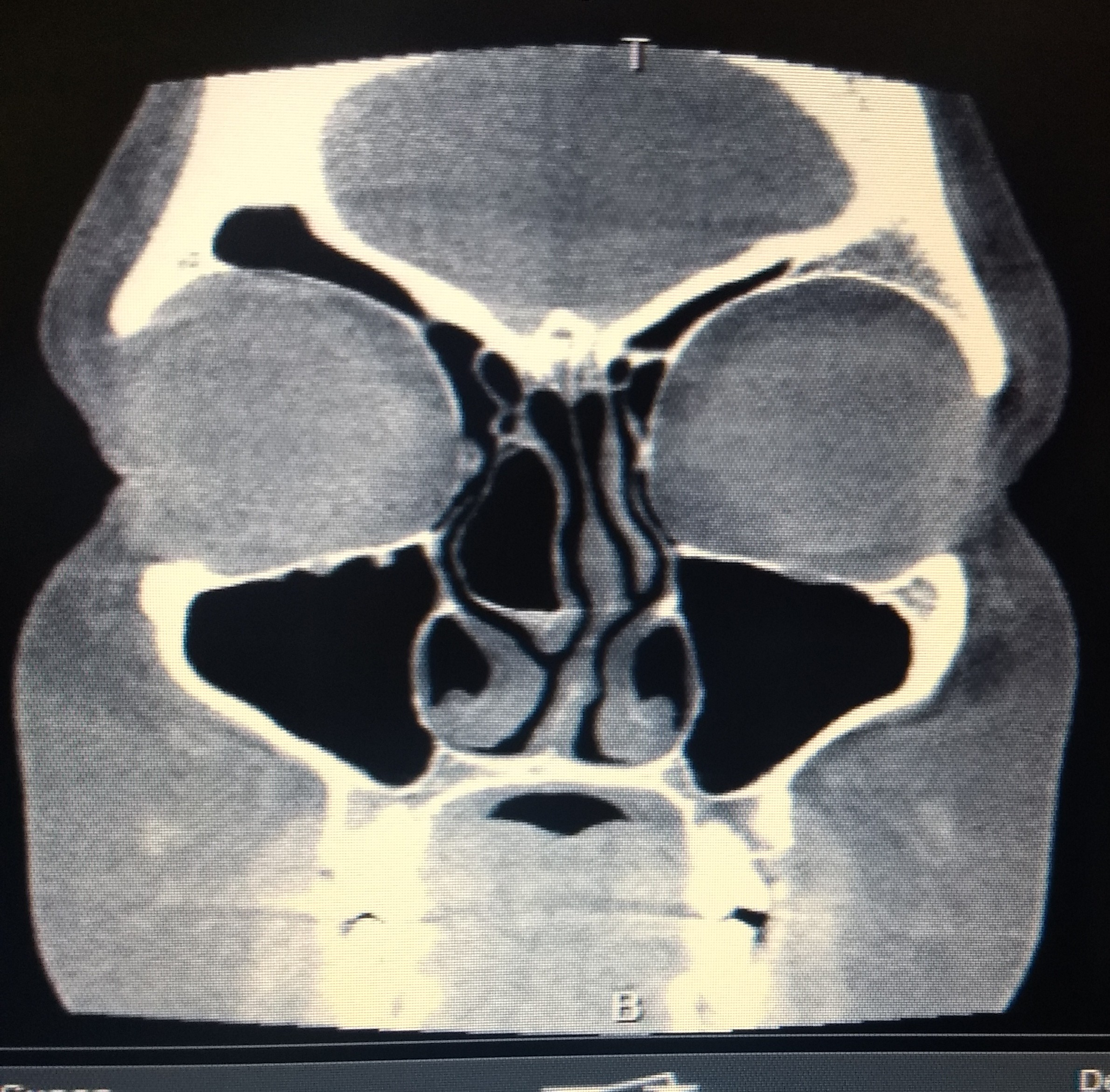 This is an x-ray which shows a patient's enlarged concha bullosa in the right sinus which also caused a deviated septum.